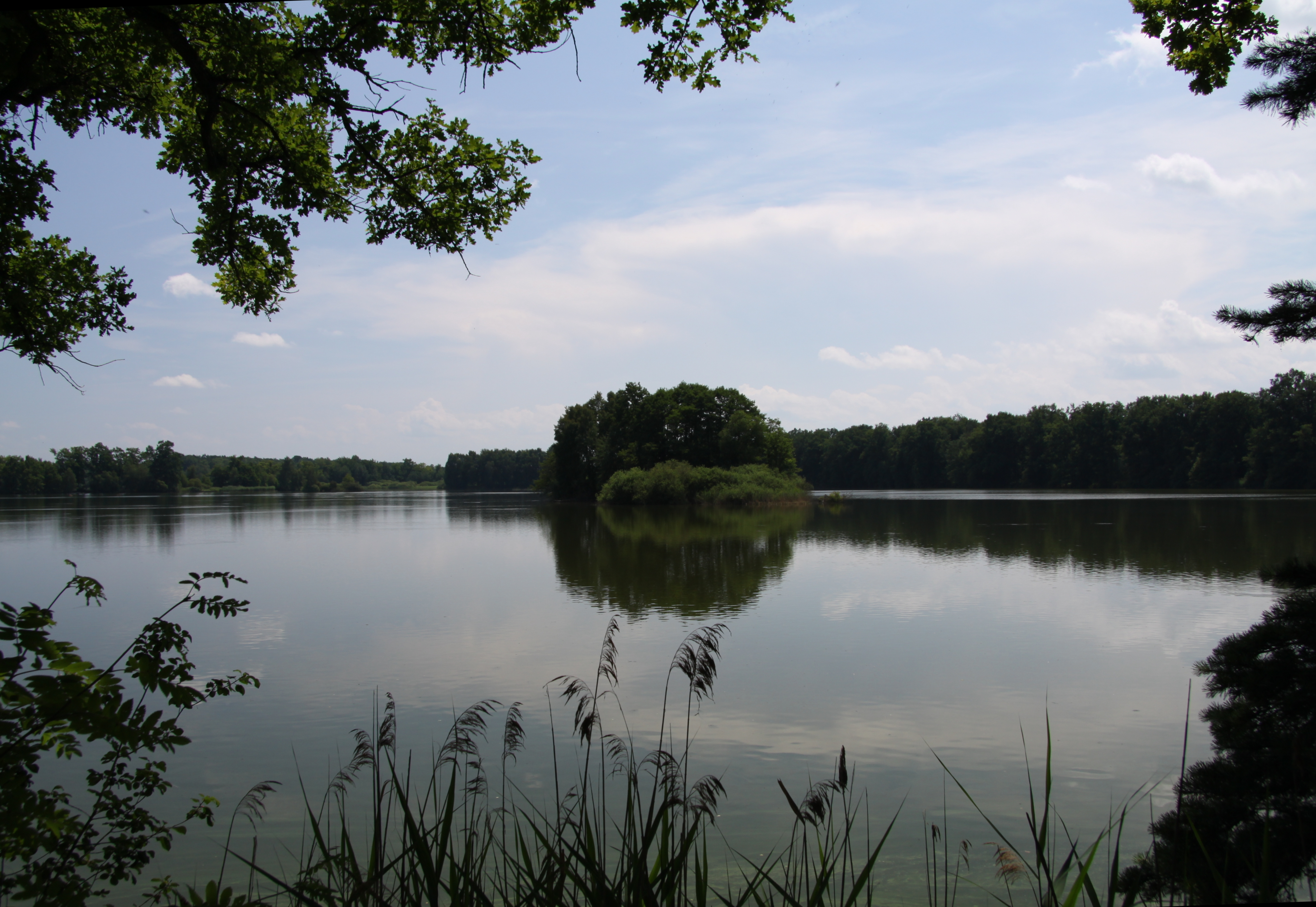 Naděje pond near Frahelž village in Jindřichův Hradec District inside CHKO Třeboňsko, Czech Republic